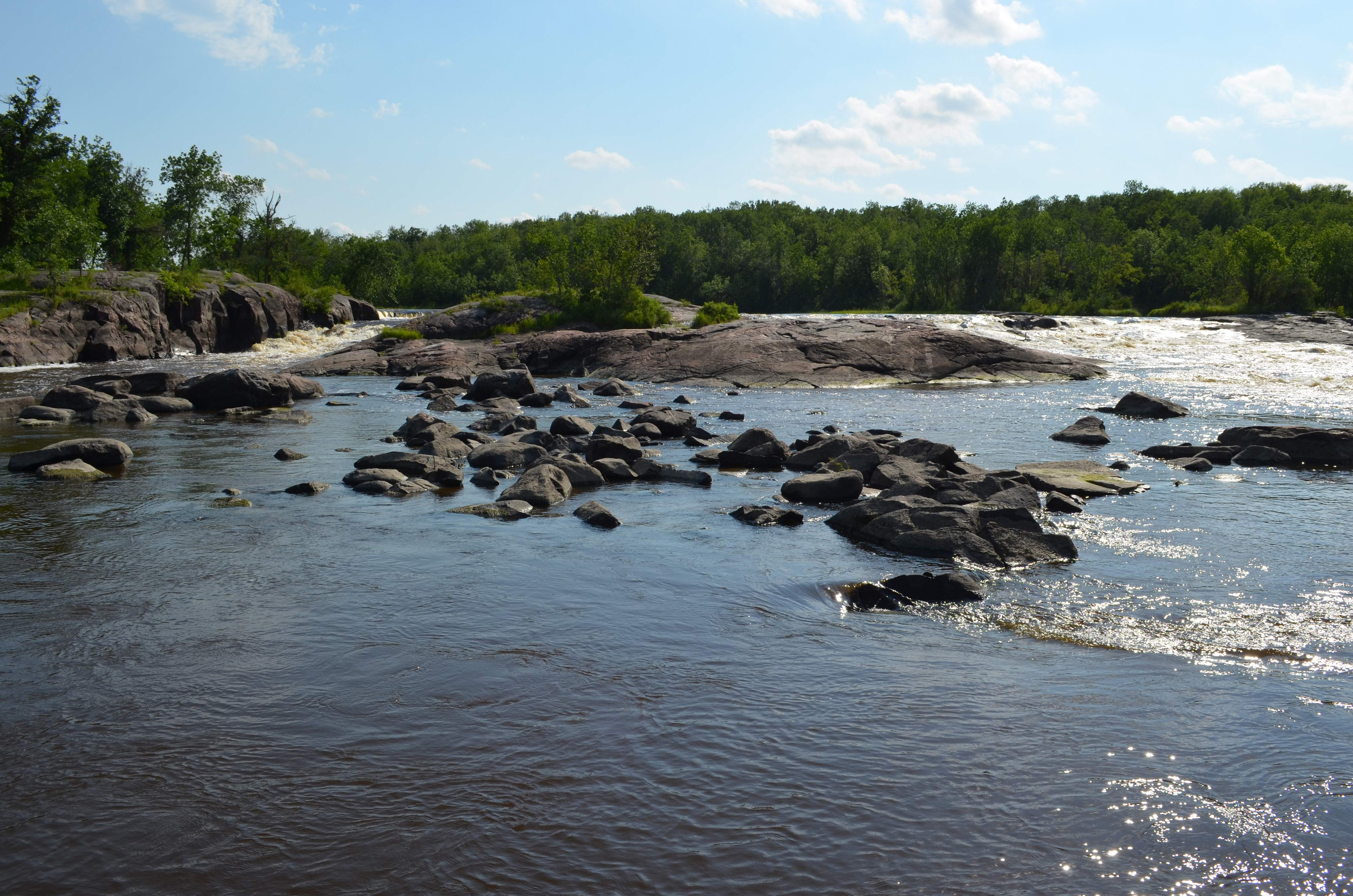 Whiteshell Provincial Park